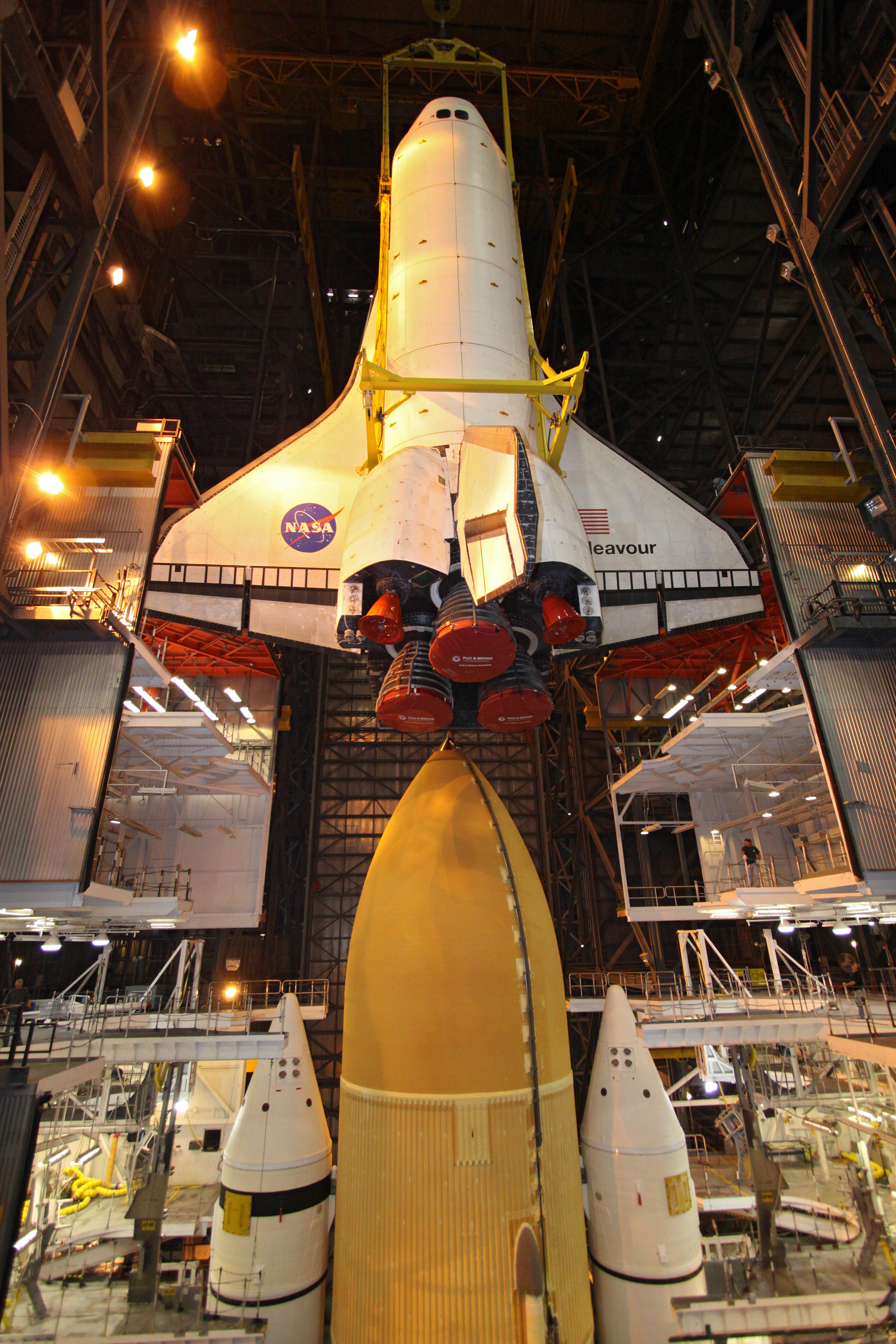 CAPE CANAVERAL, Fla. – In High Bay 1 in the Vehicle Assembly Building at NASA's Kennedy Space Center in Florida, a crane lowers space shuttle Endeavour alongside the external fuel tank and solid rocket boosters to which it will be attached. Rollout of the shuttle stack to Kennedy’s Launch Pad 39A, a significant milestone in launch processing activities, is planned for early January 2010. The Italian-built Tranquility module, the primary payload for Endeavour's STS-130 mission, will be installed in the payload bay after the shuttle arrives at the pad. Launch is targeted for early February. For information on the STS-130 mission and crew, visit